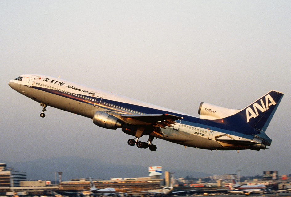 All Nippon Airways Lockheed TriStar L-1011(JA8508) at Osaka International Airport